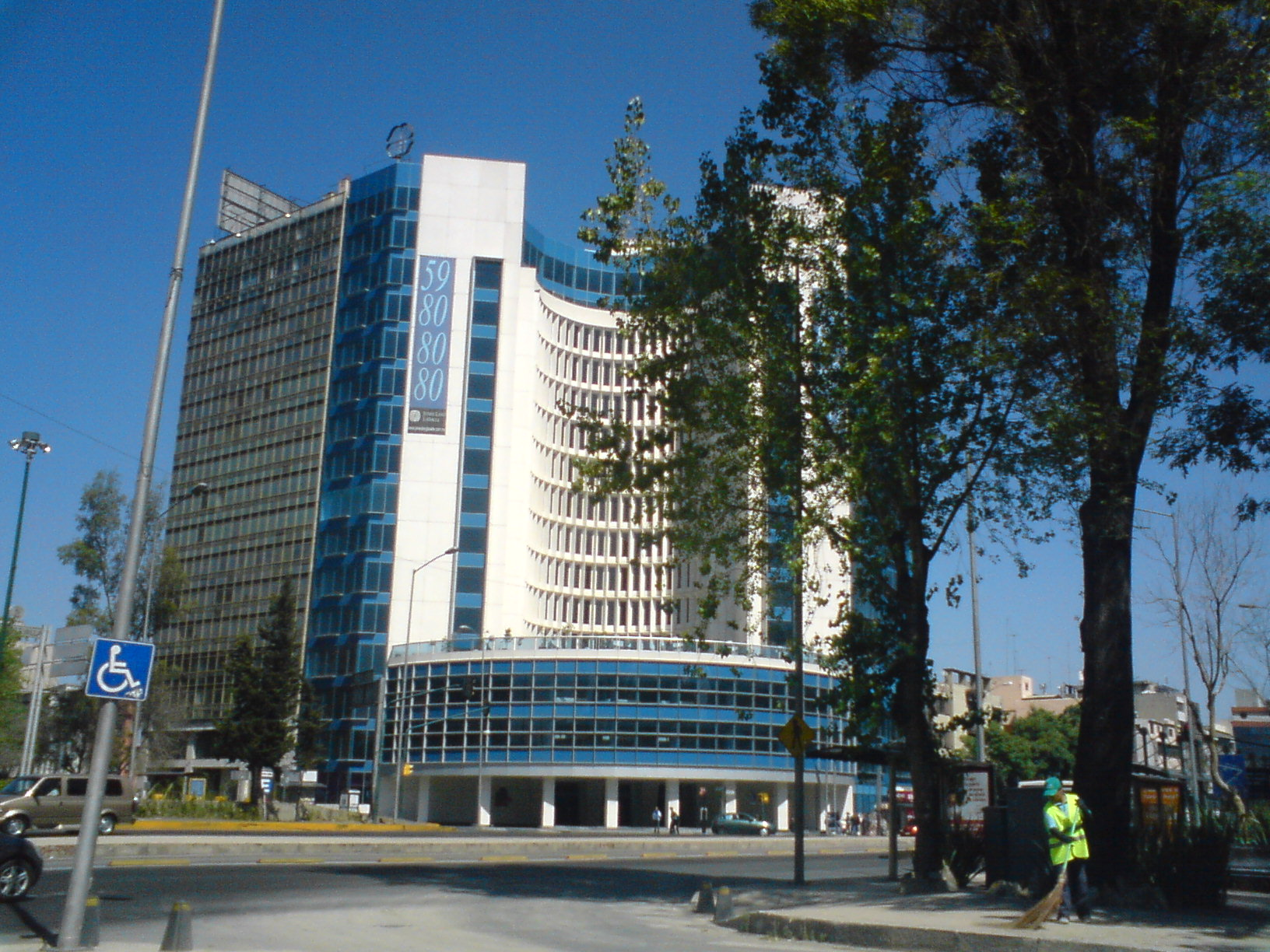 Picture of the Plaza Hotel in Mexico City